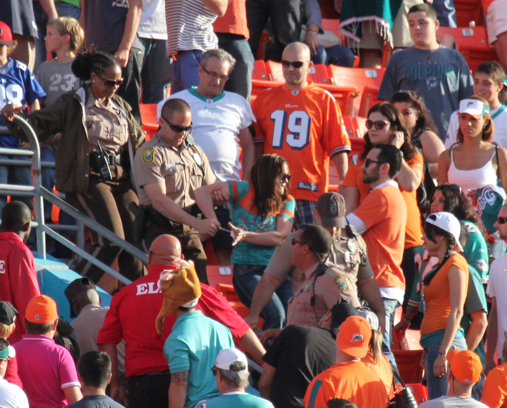 Unruly fan cuffed and led away by Miami-Dade Police during NFL Football match between Miami Dolphins and Buffalo Bills at Sun Life Stadium, December 23, 2012.